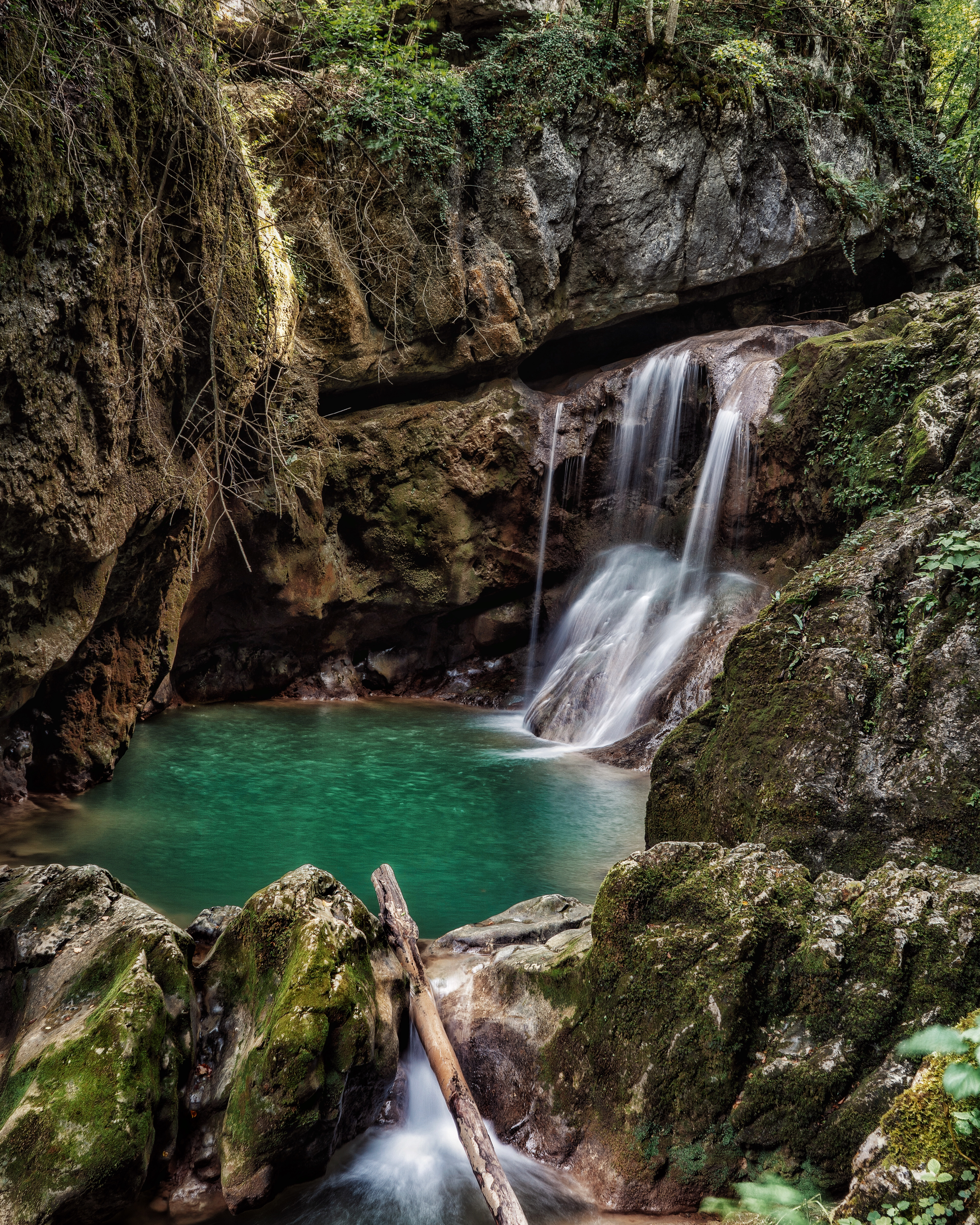 Svrakava waterfall is on the border of the municipalities of Banja Luka and Celinac, in a place Bastasi a favorite for cyclists and adventurers from nature.